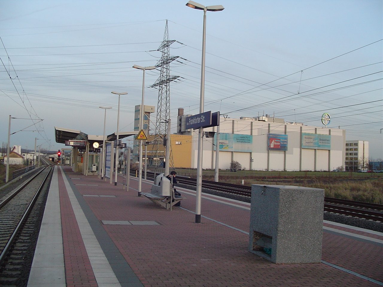 train station Frankfurter Str. (S-Bahn) in Cologne, Germany